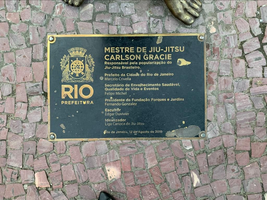 Board of Carlson Gracie statue in Copacabana, Rio de Janeiro